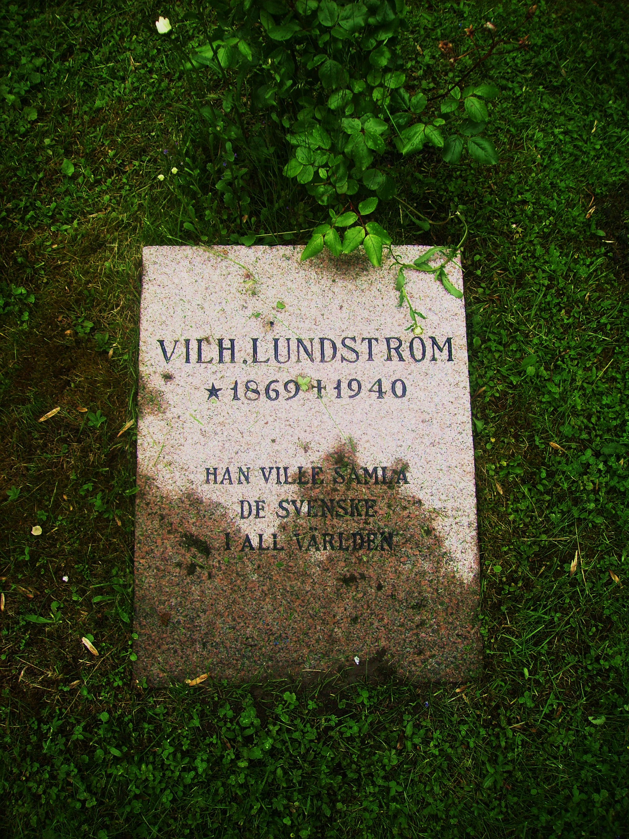 Picture of Vilhelm Lundströms grave, Sigtuna